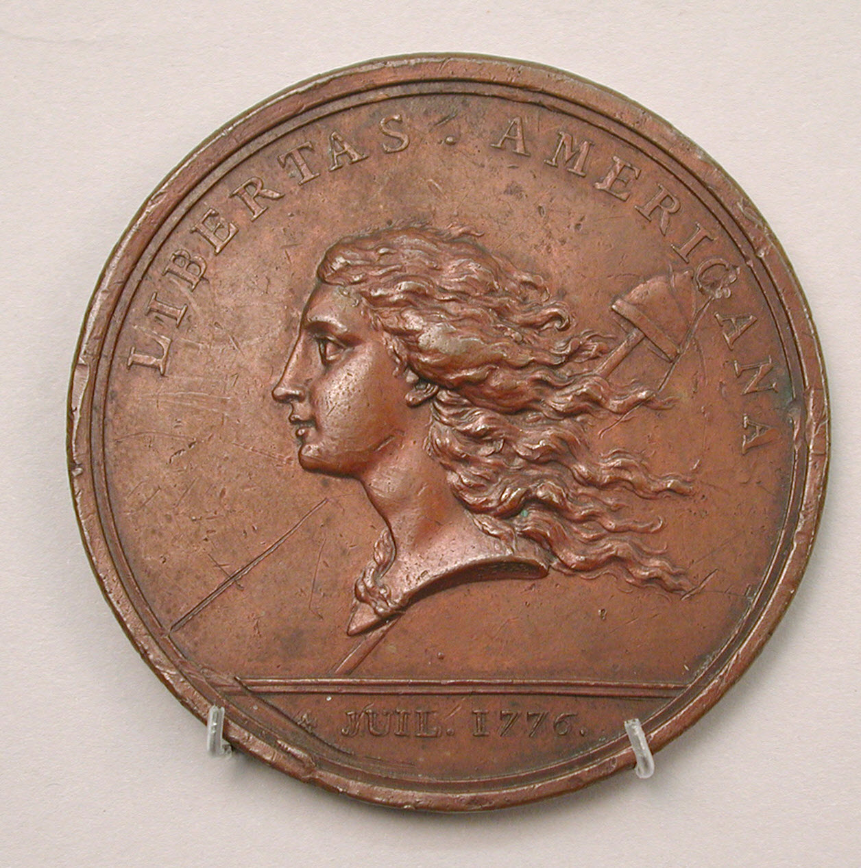 French; Medal; Medals and Plaquettes